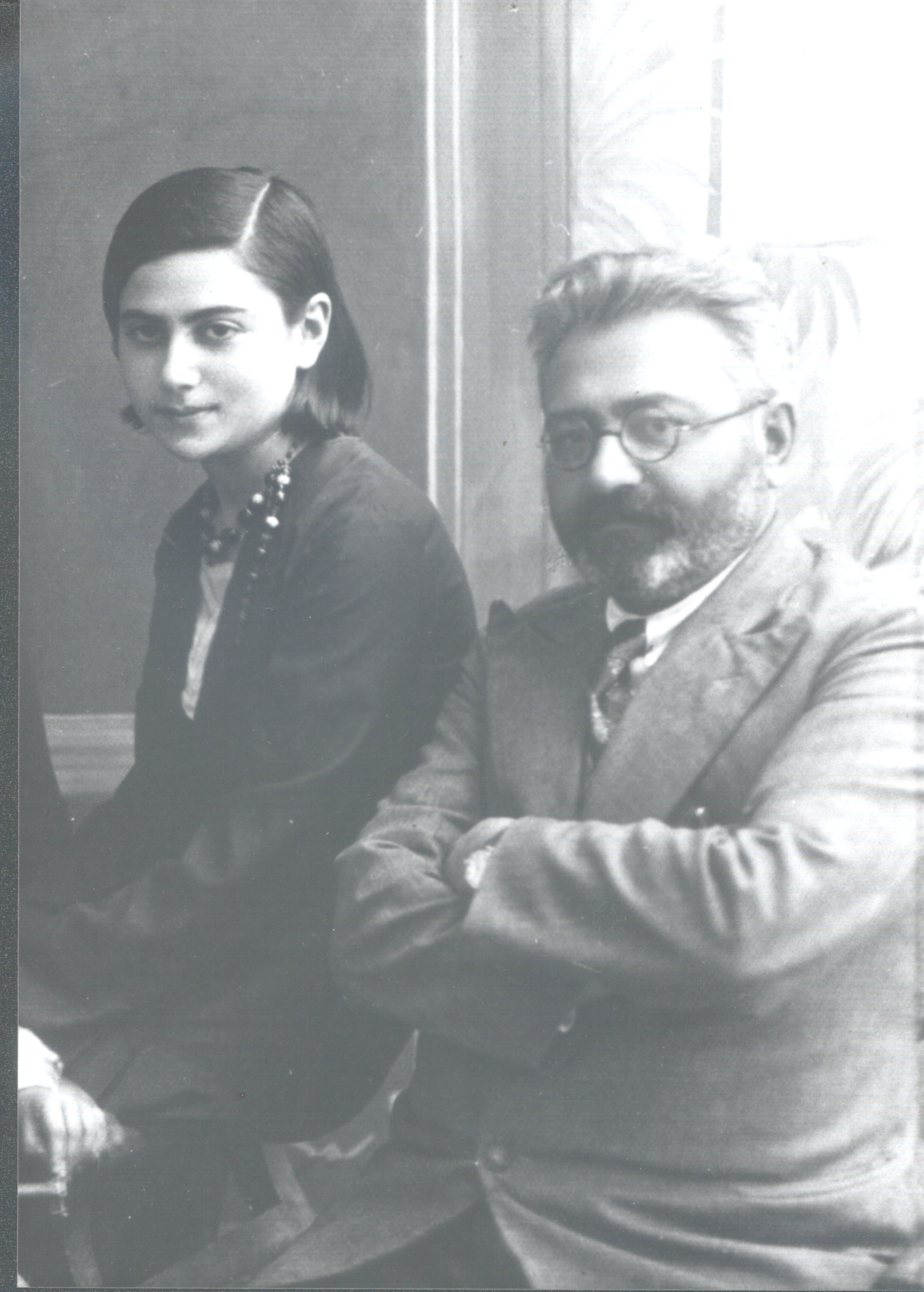 שושנה שרירא ואביה שמואל שרירא